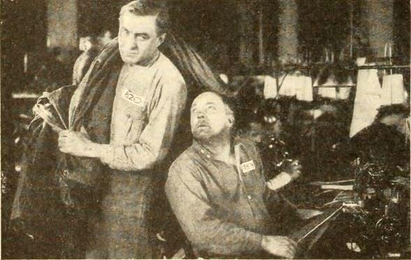 Still from the American silent film Desperate Trails (1921) with Harry Carey, on page 58 of the September 1921 Photoplay.